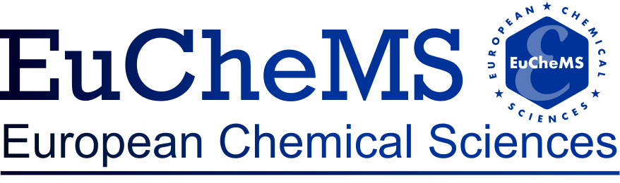 Old EuCheMS logo with text, used until August 2018